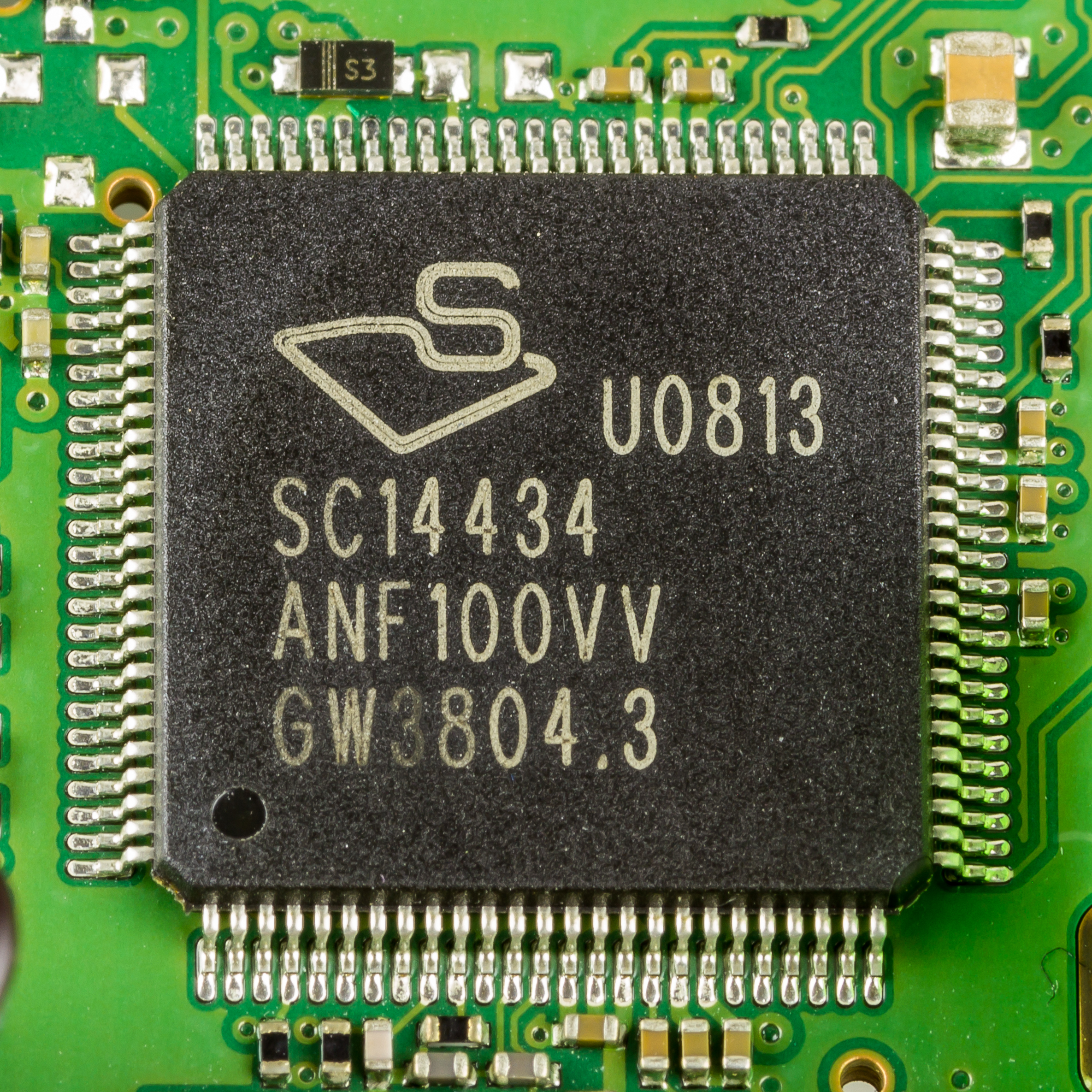 Fritz!Box Fon WLAN 7270 - SiTel SC14434 - Baseband Processor for DECT